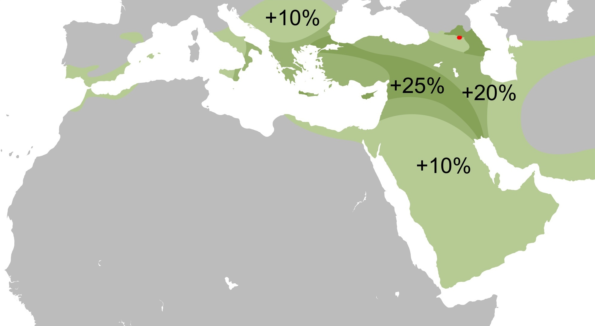 Author Crates. Map corrected according to Nasidze et al., (2004)